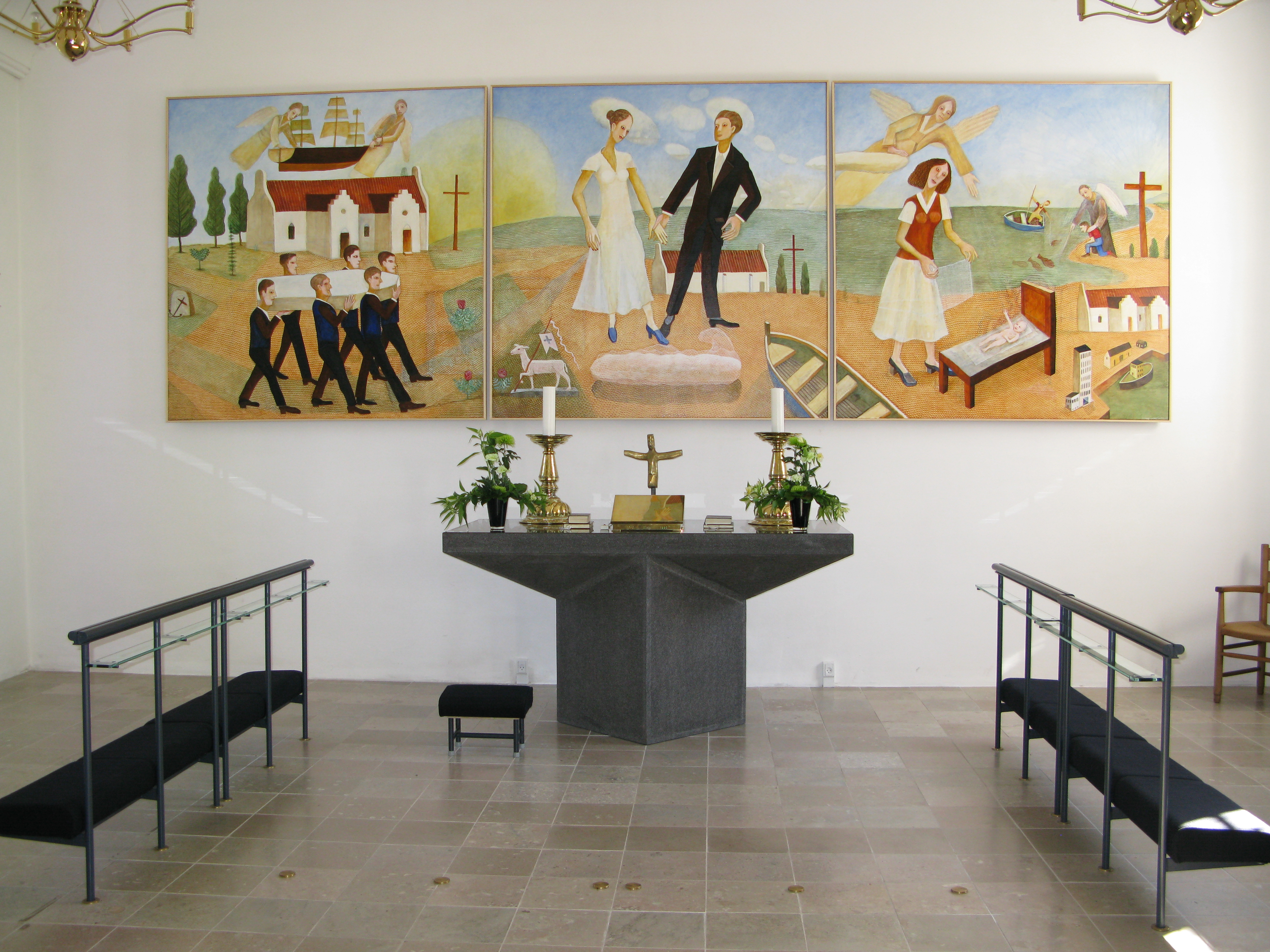 new alter of Fladstrand Church, Frederikshavn deaconry, Diocese Aalborg; Altarpiece ist manufractured by Seppo Mattinen